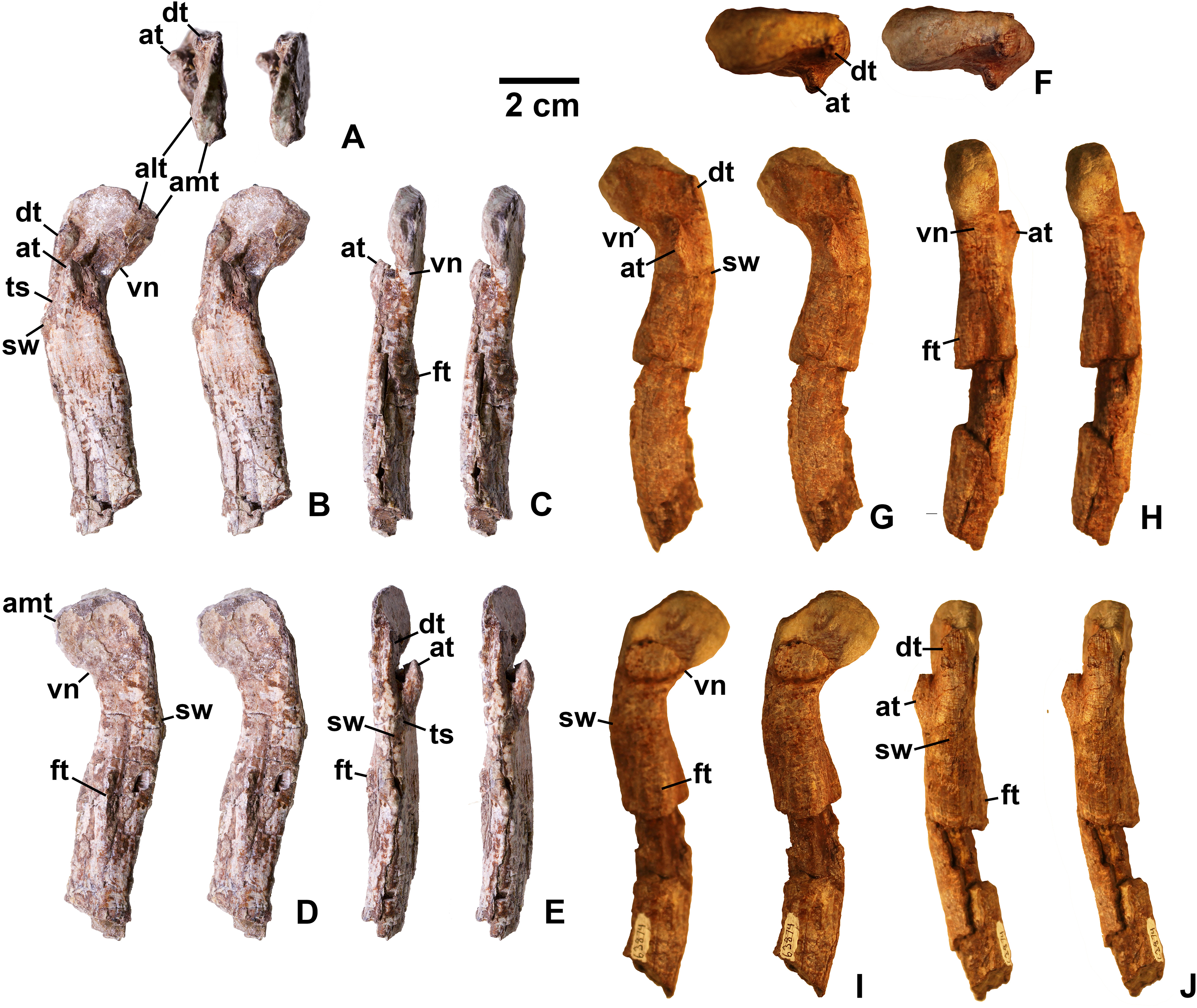 Figure 18: Kwanasaurus williamparkeri proximal femora, larger specimens. (A) DMNH EPV.125924, right femur stereopairs in proximal view, (B) anterolateral view, (C) anteromedial view, (D) posteromedial view, (E) posterolateral view, (F) DMNH EPV.63874, left femur stereopairs in proximal view, (G) anterolateral view, (H) anteromedial view, (I) posterolateral view, (J) posterolateral view. Scale bar = 2 cm. alt = anterolateral tuber amt = anteromedial tuber at = anterior trochanter dt = dorsolateral trochanter ft = fourth trochanter sw = swelling ts = trochanteric shelf vn = ventral notch